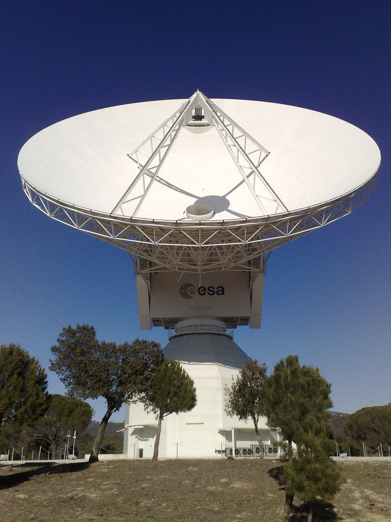 ESA's 35m deep space antenna at Cebreros, Spain. This station is part of the ESTRACK network.